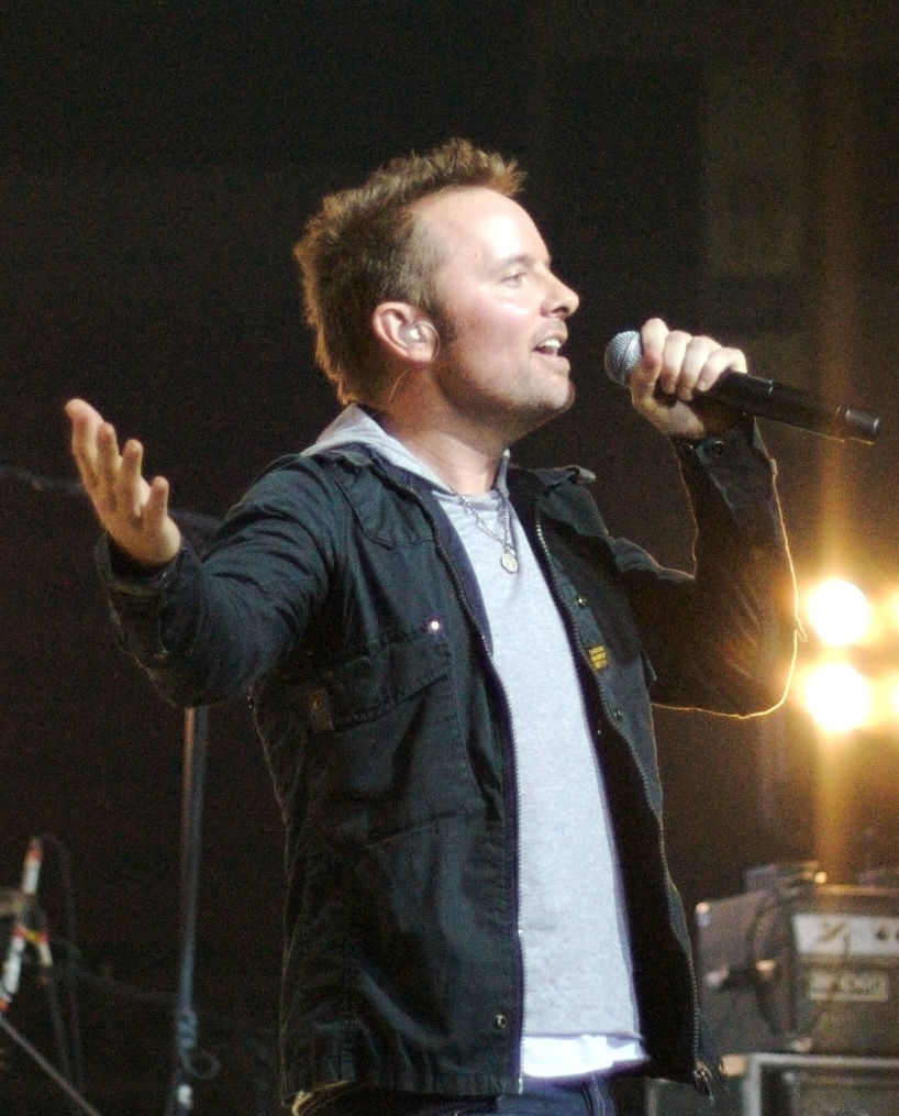 Chris Tomlin performing a concert in Johnson City, Tennessee, November 2007.